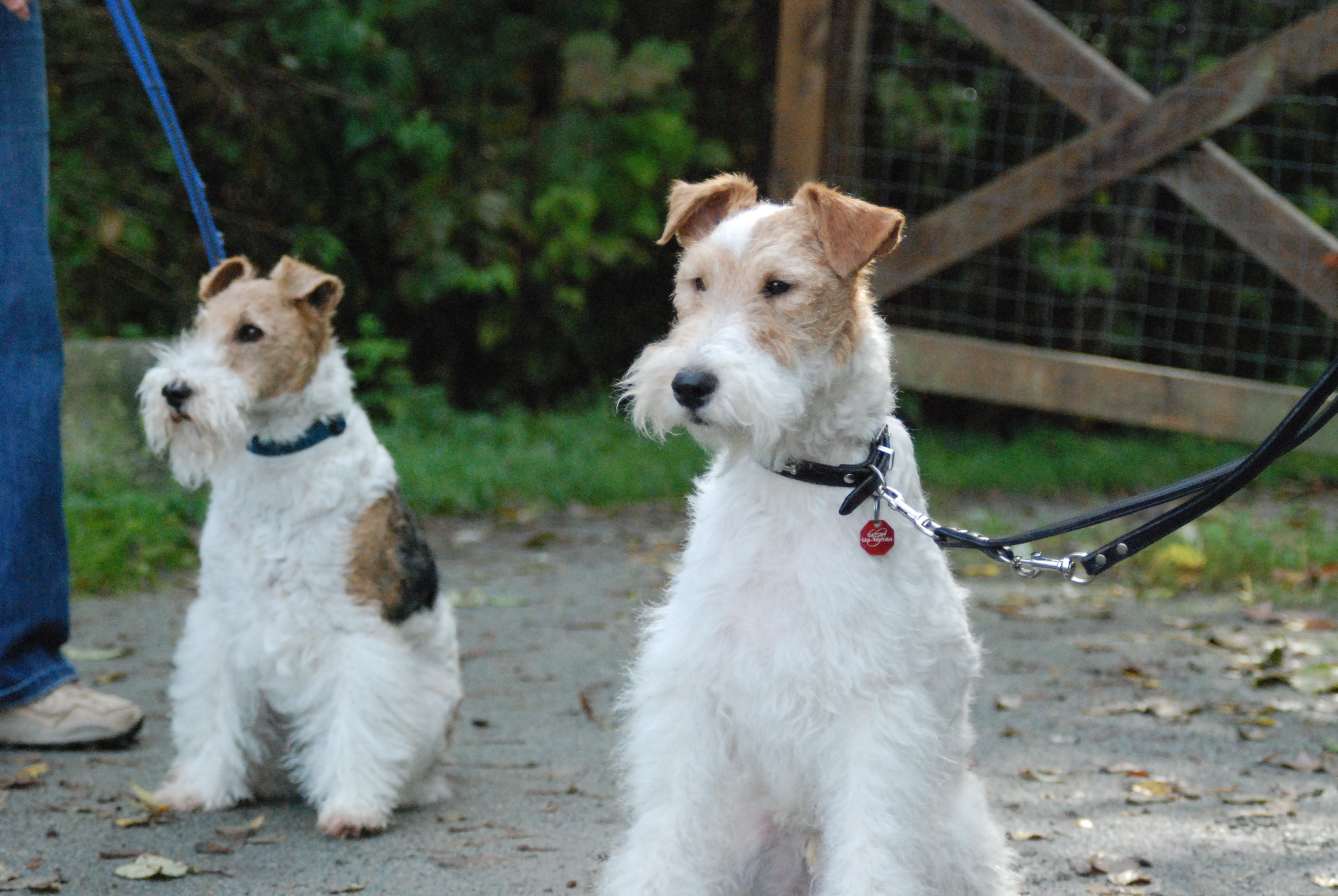 Two Wire haired Fox Terriers. Listed on Flickr as "Daisy and Gatsby".